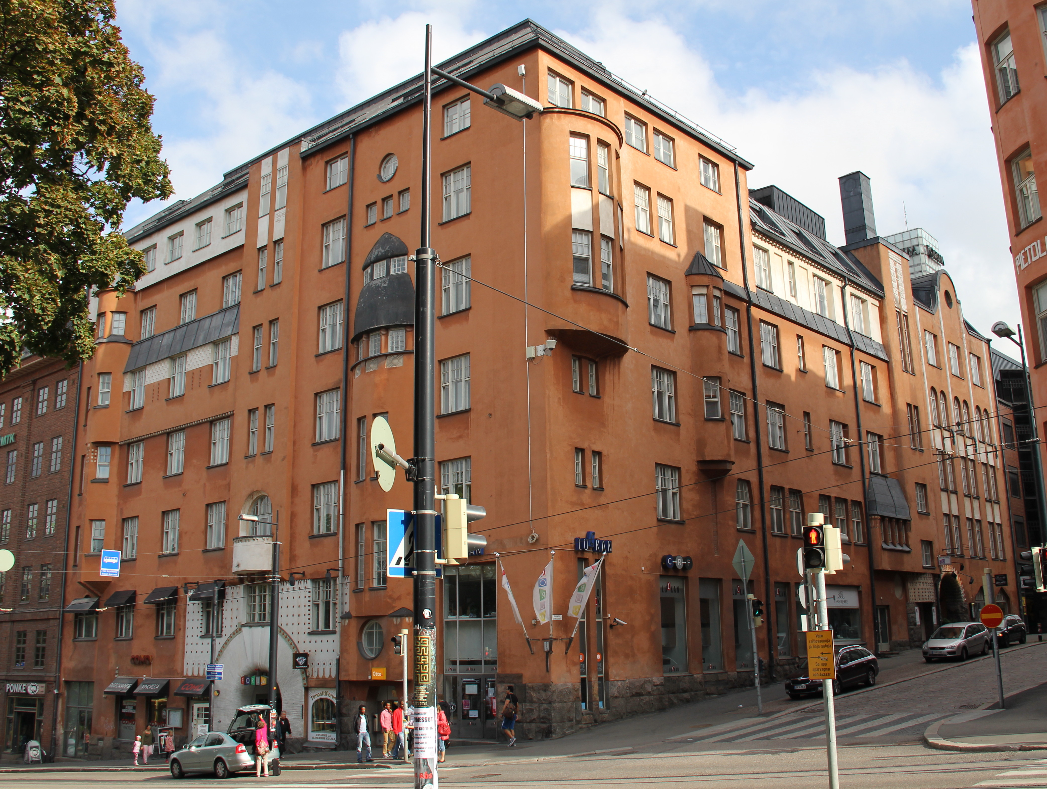 The Koitto Building, a former building of Temperance society Koitto, in the corner of Simonkatu and Yrjönkatu, Helsinki, Finland. Designed by architect Vilho Penttilä and completed in 1907.